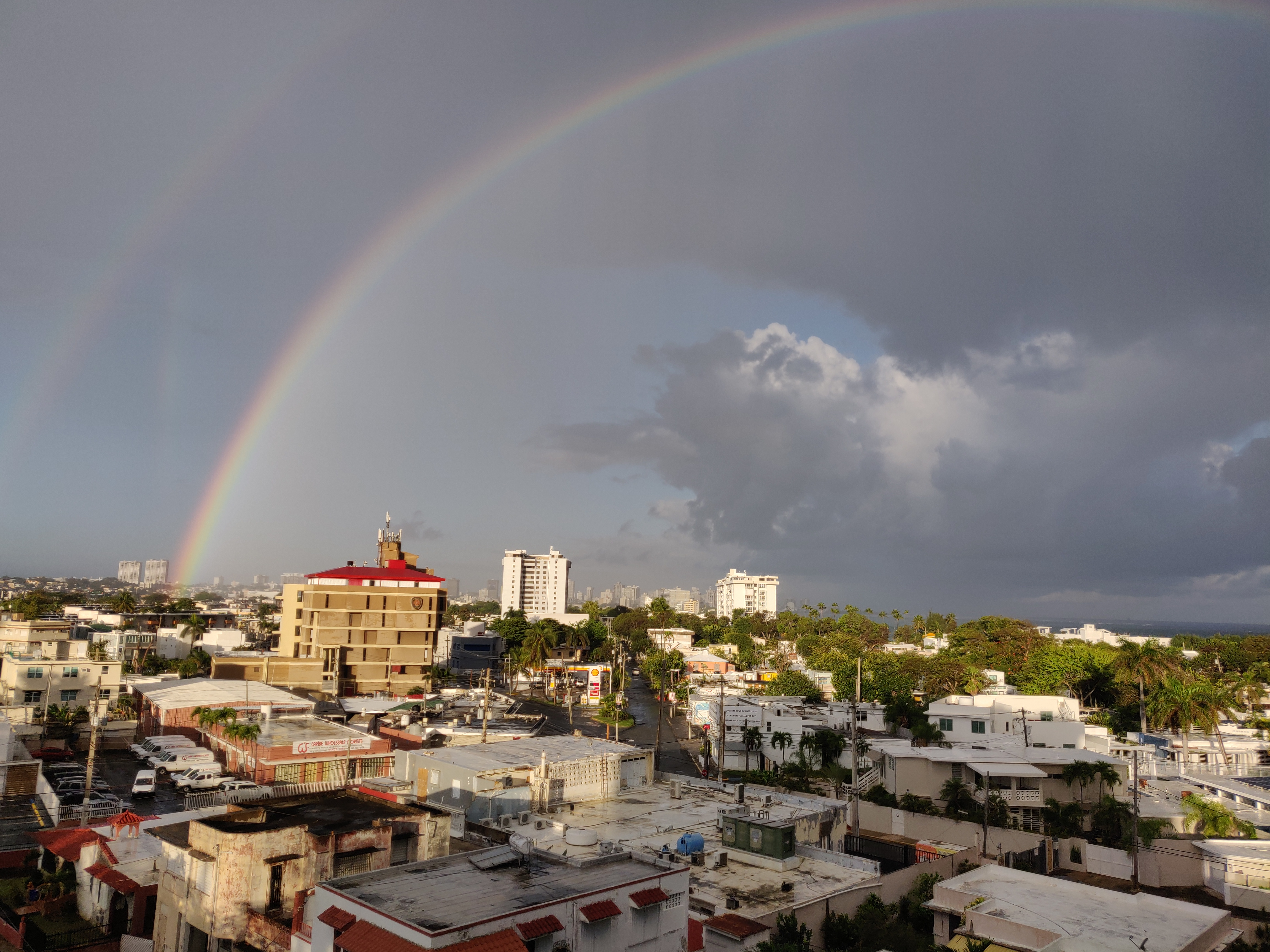 View of a rainbow in Ocean Park, San Juan on January 2020.